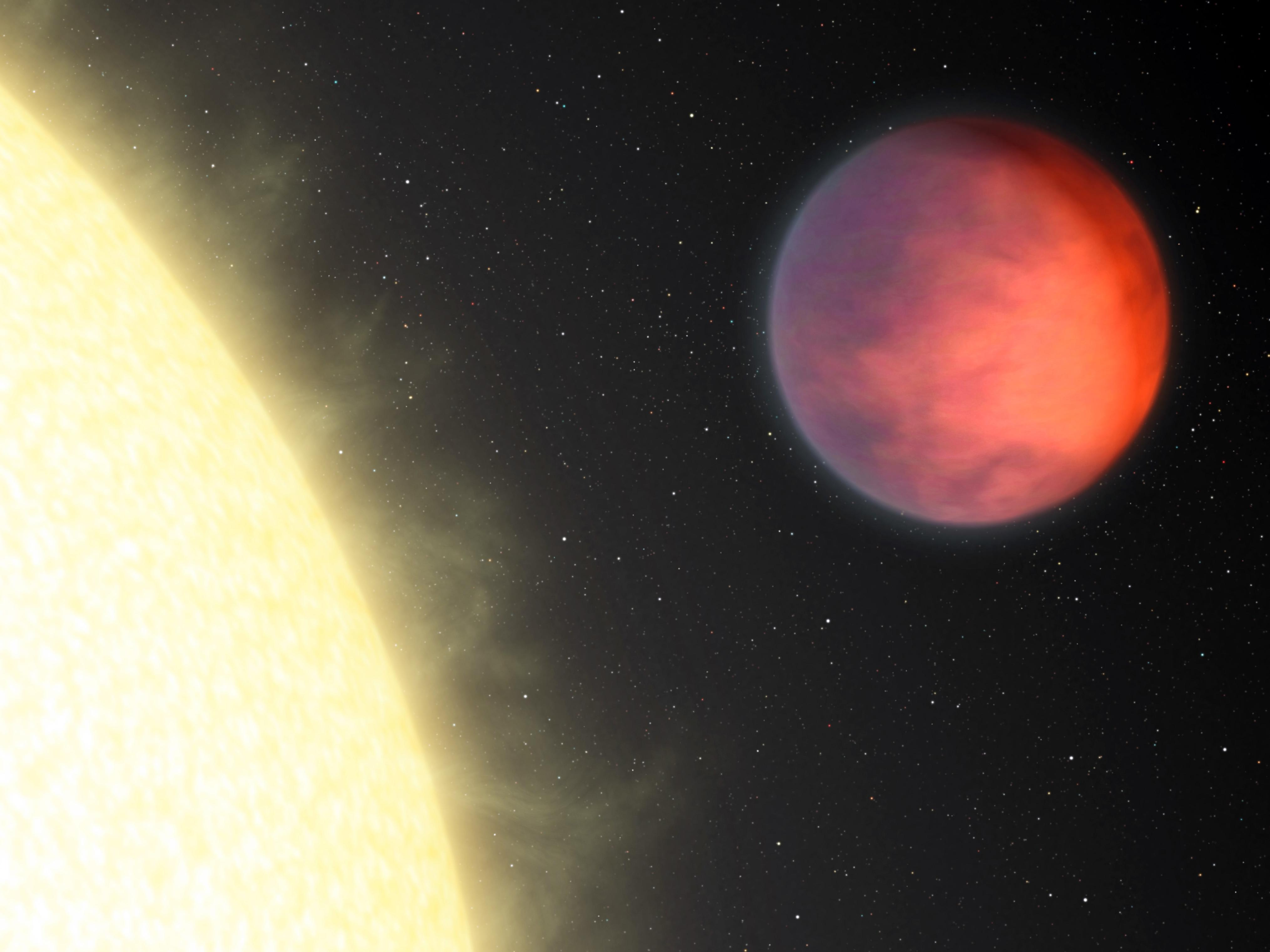 Original Caption: PLANETARY HOT SPOT NOT UNDER THE GLARE OF STAR - NASA's Spitzer Space Telescope has found that the hottest part of a distant planet, named upsilon Andromedae b, is not under the glare of its host star as might be expected. Instead, the planet's hot spot -- illustrated here in this artist's concept in brighter, orange hues -- is more than 80 degrees to the side, closer to the dark side of the planet. The planet is a hot gas giant that whips around its star every 4.6 days. Because it is so close to its star, it is tidally locked, meaning that one side is eternally bombarded by the star's radiation. The other dark side never sees the light of day. Astronomers are scratching their heads as to why the planet's hot material is found so far over to the side.